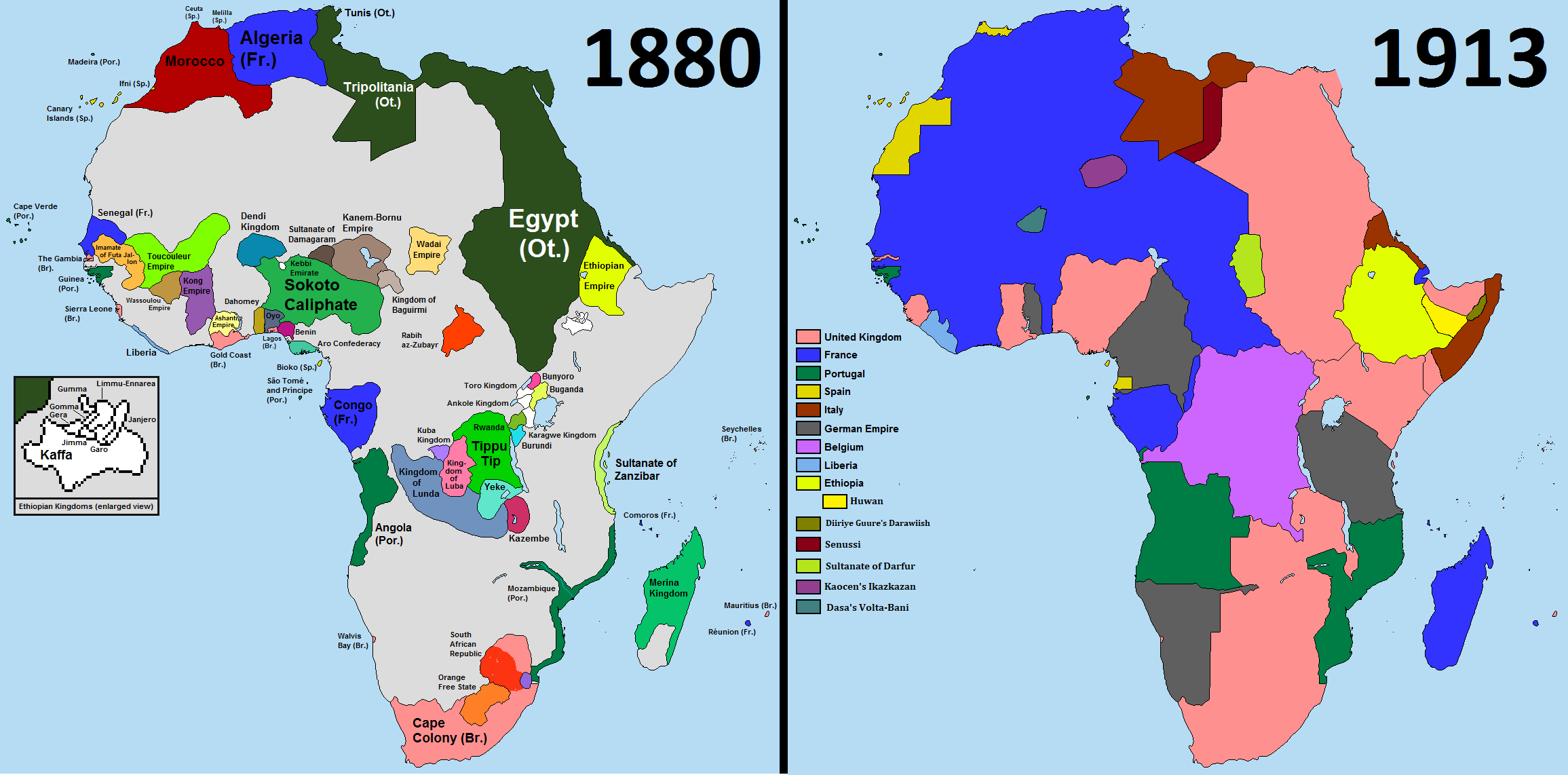 Comparison of Africa in the years 1880 and 1913. Shows how the Scramble for Africa affected the continent. Uses Qazaq2007's QBAM map from . Various sources used, including Wikipedia itself.